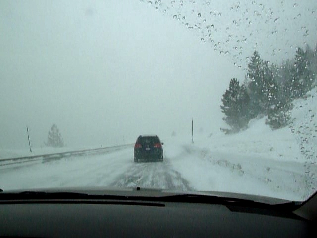 Driving in a snowstorm with cars visible ahead.